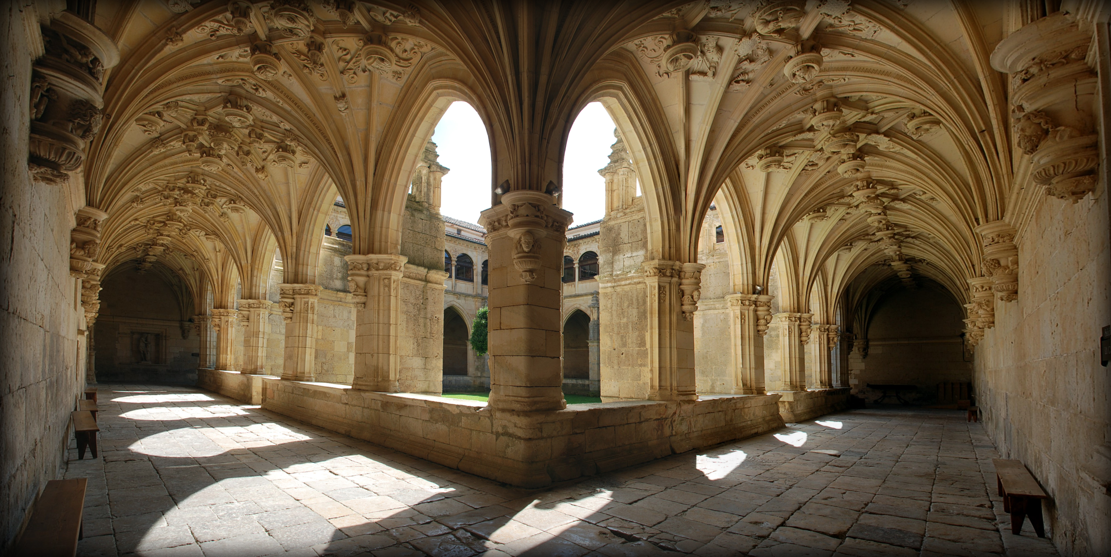 Plateresque cloister of Saint Zoilo Monastery in Carrión de los Condes (Palencia, Castile and León).